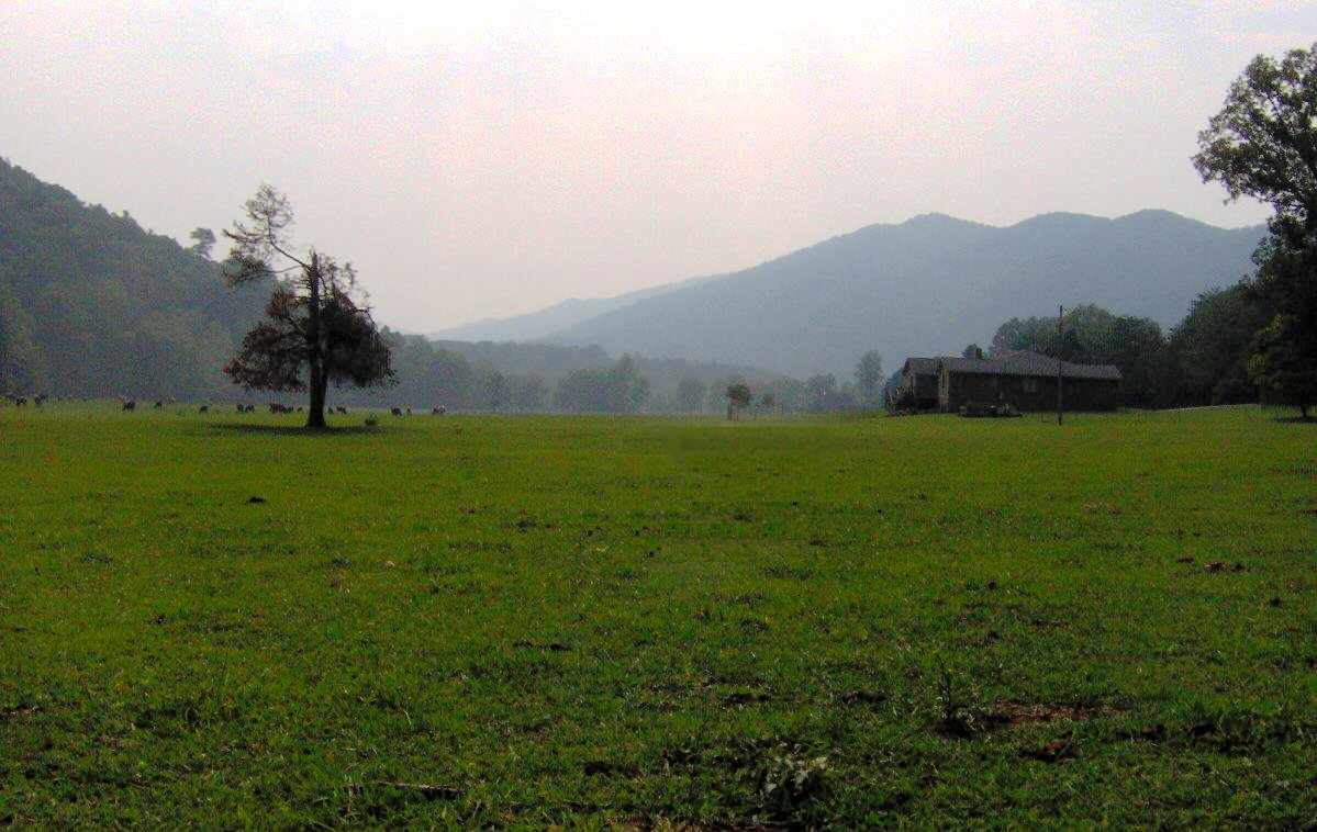 Miller's Cove, located in the Foothills of the Great Smoky Mountains of East Tennessee. Chilhowee Mountain rises on the right.